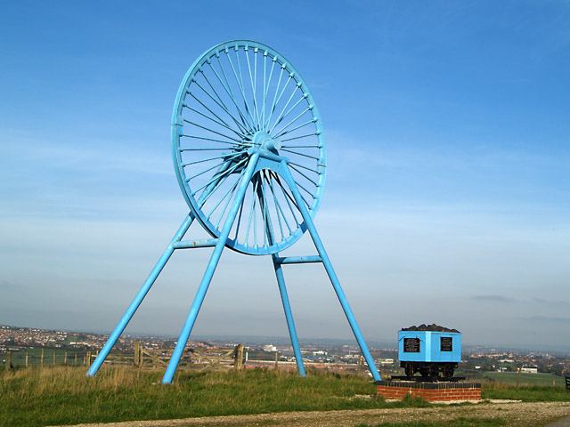 Apedale Country Park near Newcastle under Lyme Pit head wheel and coal tub memorial to the miners of North Staffordshire.